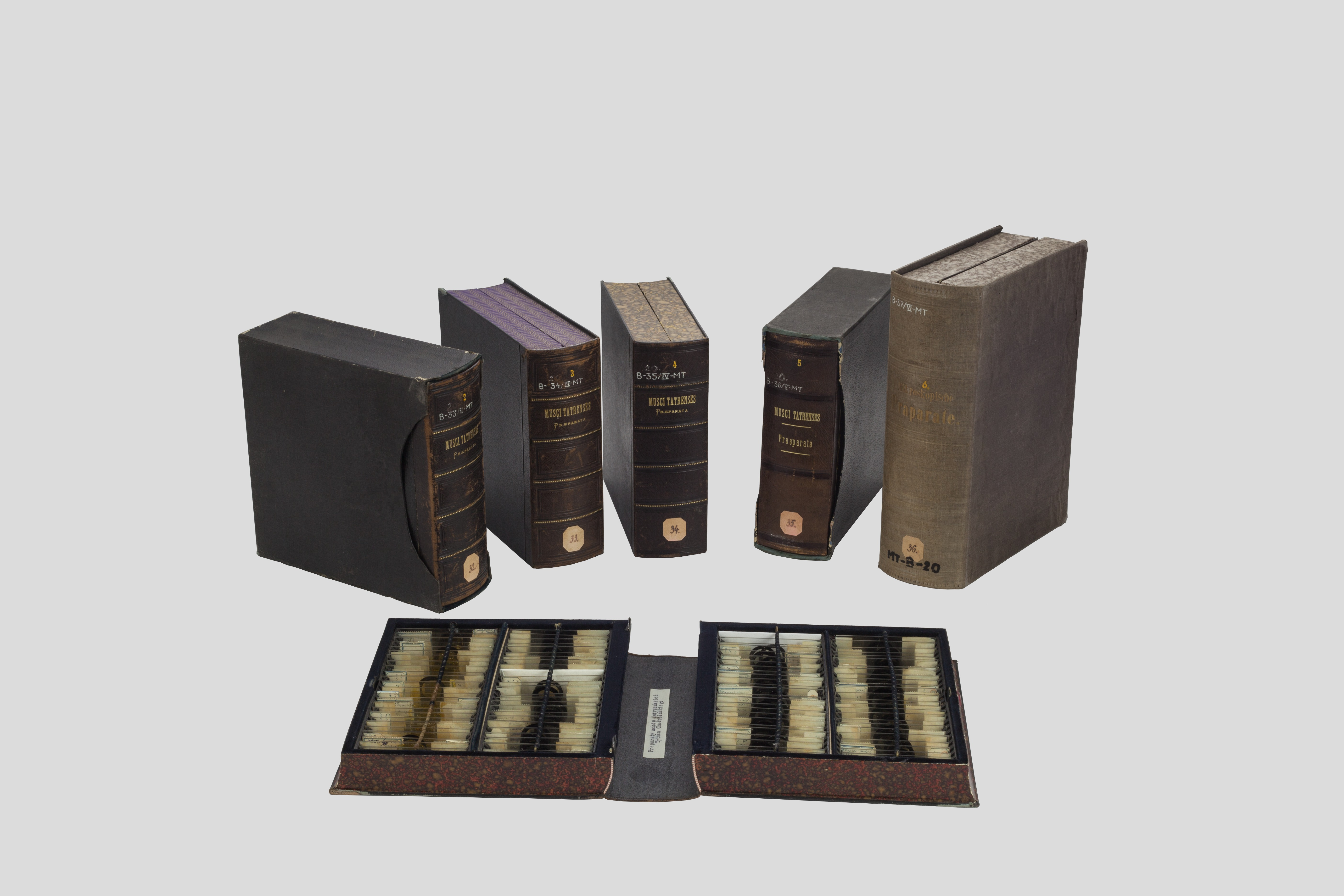 A herbarium of mosses collected in the period of 1876–1885 by Tytus Chałubiński